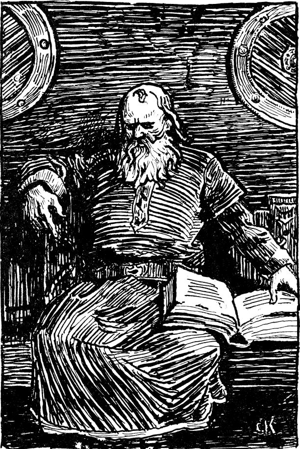 Christian Krogh: Illustration for Heimskringla 1899-edition. «Snorre Sturluson»